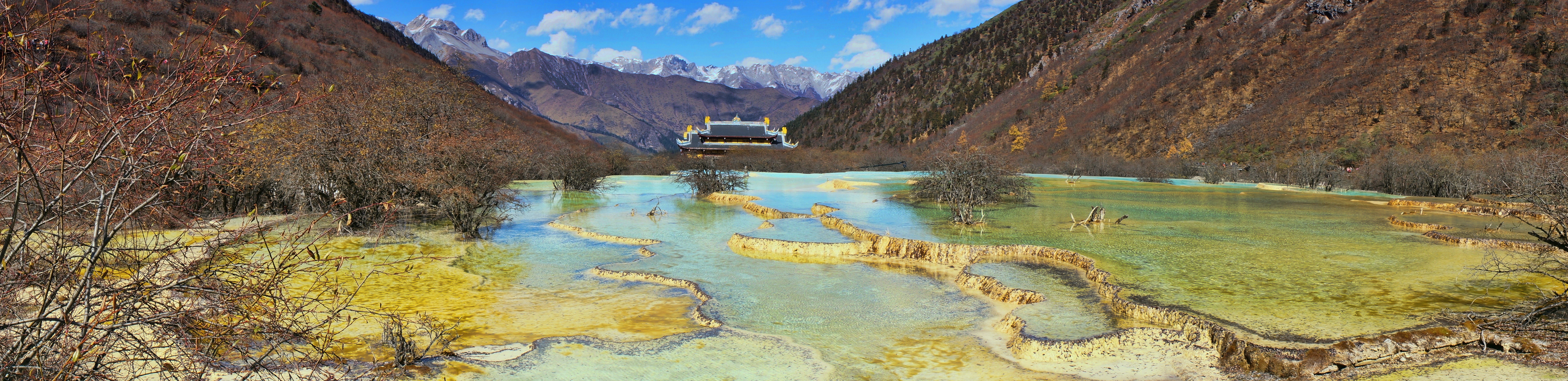 huanglong sichuan panorama china autumn 2011